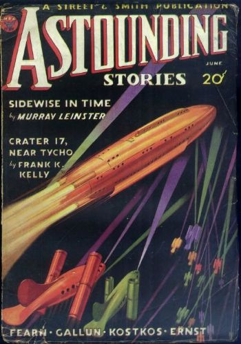 Cover of Astounding Stories,June1934